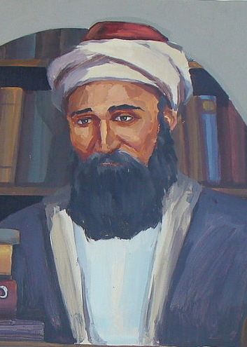 Detail of wall painting of Moshe Chaim Luzzatto (aka Ramhal), at the wall of Akko's Auditorium